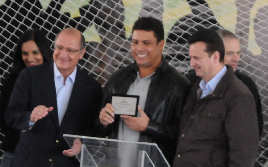 Geraldo Alckmin, Ronaldo and Gilberto Kassab after Arena Corinthians was chosen to host the opening match of FIFA World Cup 2014